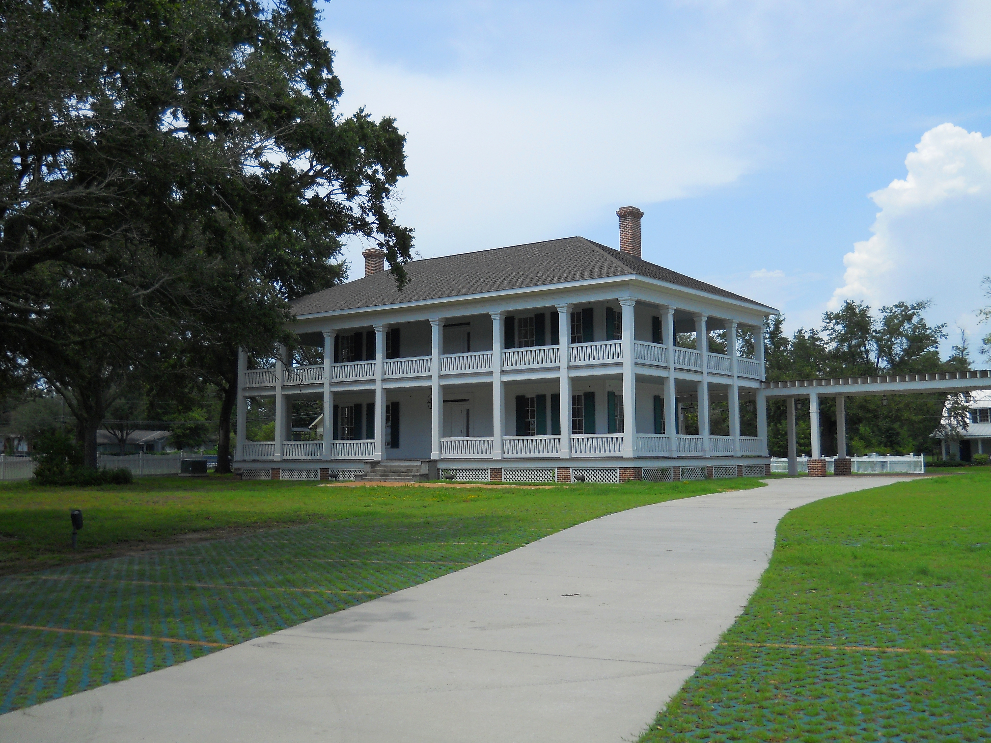 Replica of Grass Lawn (Milner House), Gulfport, Harrison County, Mississippi, USA. The original home was destroyed on August 29, 2005, during Hurricane Katrina.